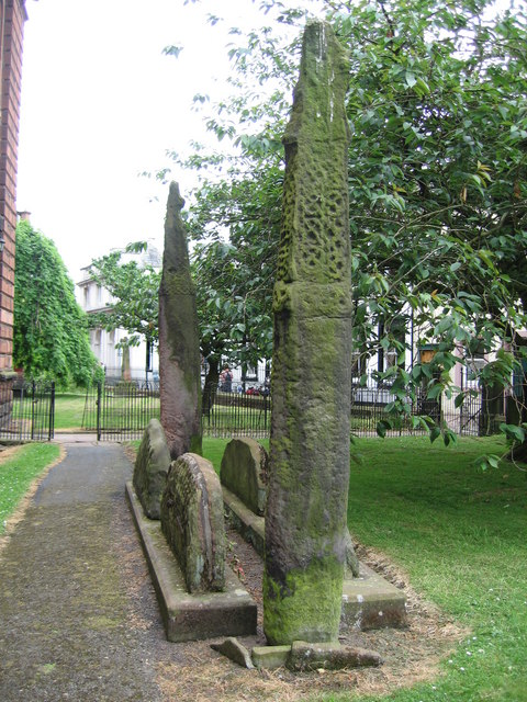 Giants Grave. Graveyard St. Andrews Church Penrith. NY51653071